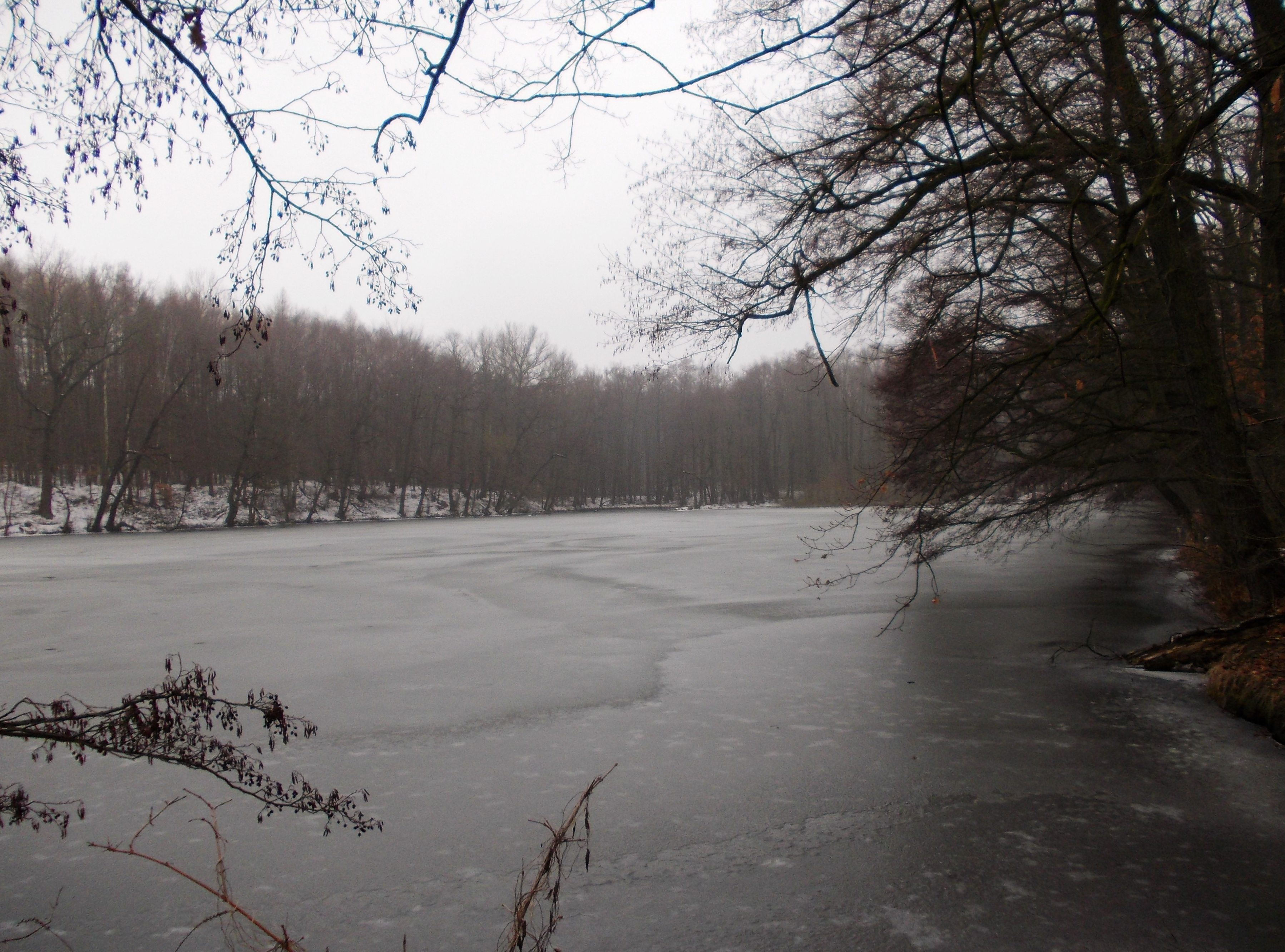 Schachtloch lake in Altenbach (Bennewitz, Leipzig district, Saxony) in winter